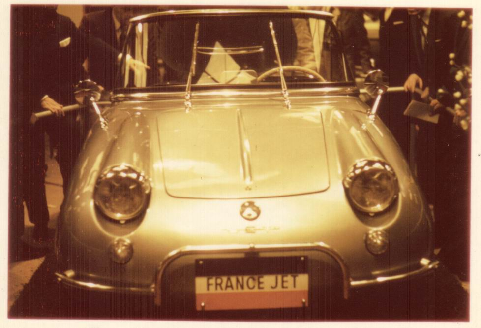 1960 New York Auto Show. France Jet Motors had offices then at 79 Pine St, in the financial district. There was no tooling or manufacturing site in the USA at that time. After the failure of this venture, this car was used by Jacques Fisher's family in New York, at their home.